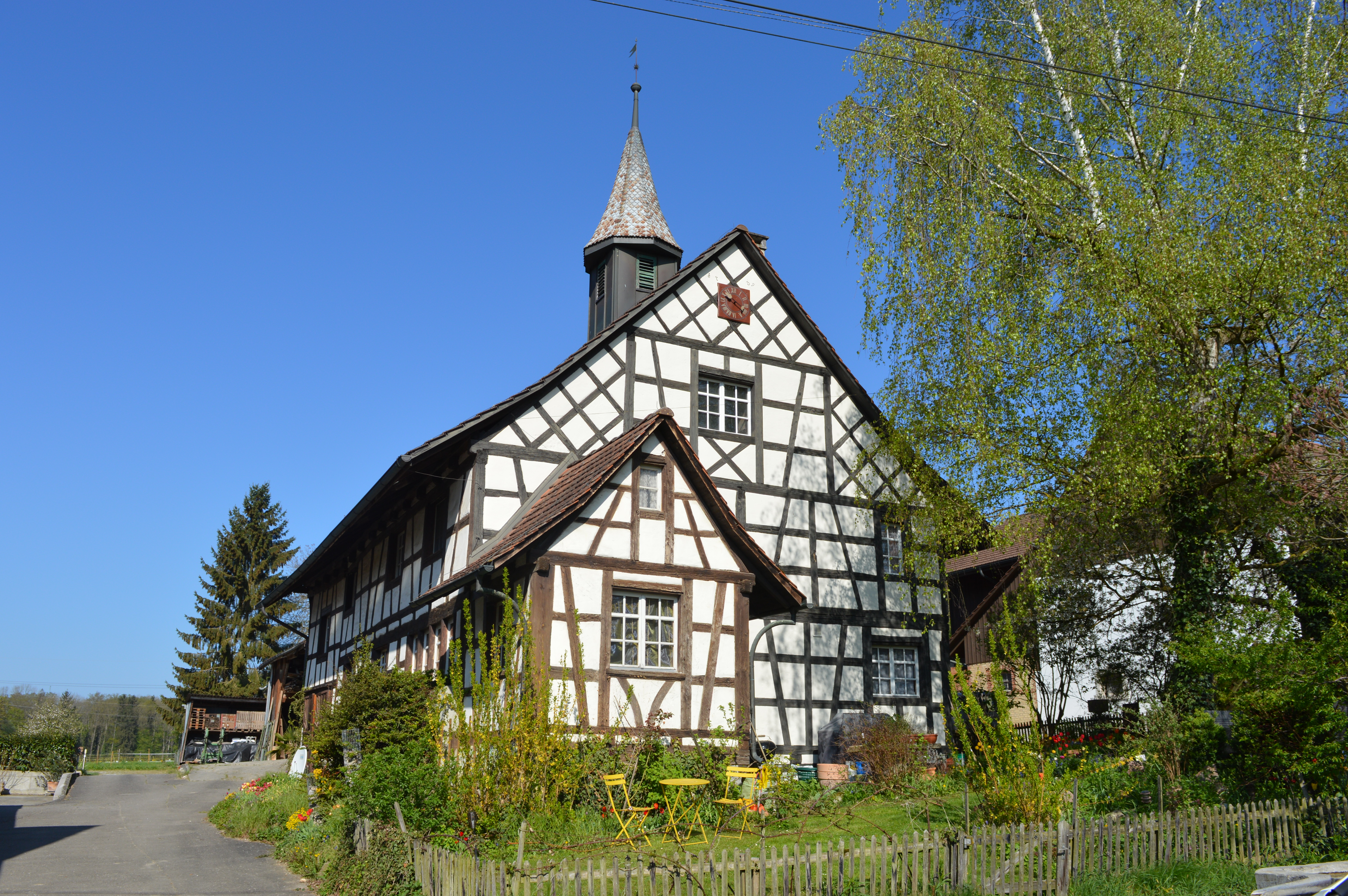 Fahrhof, municipality of Neunforn, canton of Thurgovia, Switzerland